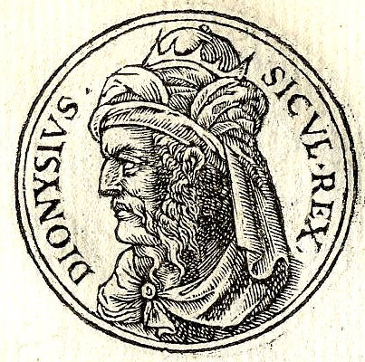 Dionysius I of Syracuse was a Greek tyrant of Syracuse, in what is now Sicily, southern Italy.